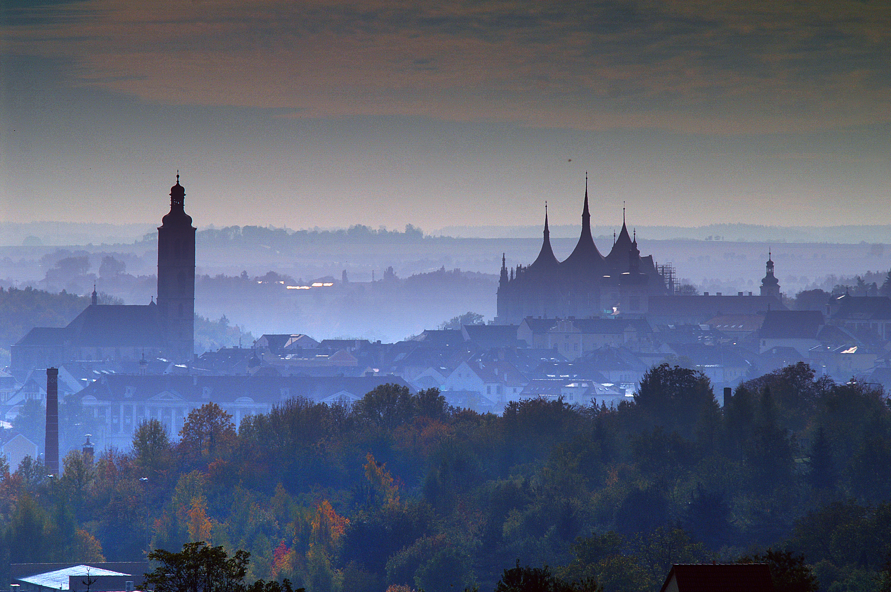 The Panorama of Kutna Hora. St. Jacob church and St. Barbara´s cathedral the most significant silhouette in the town.